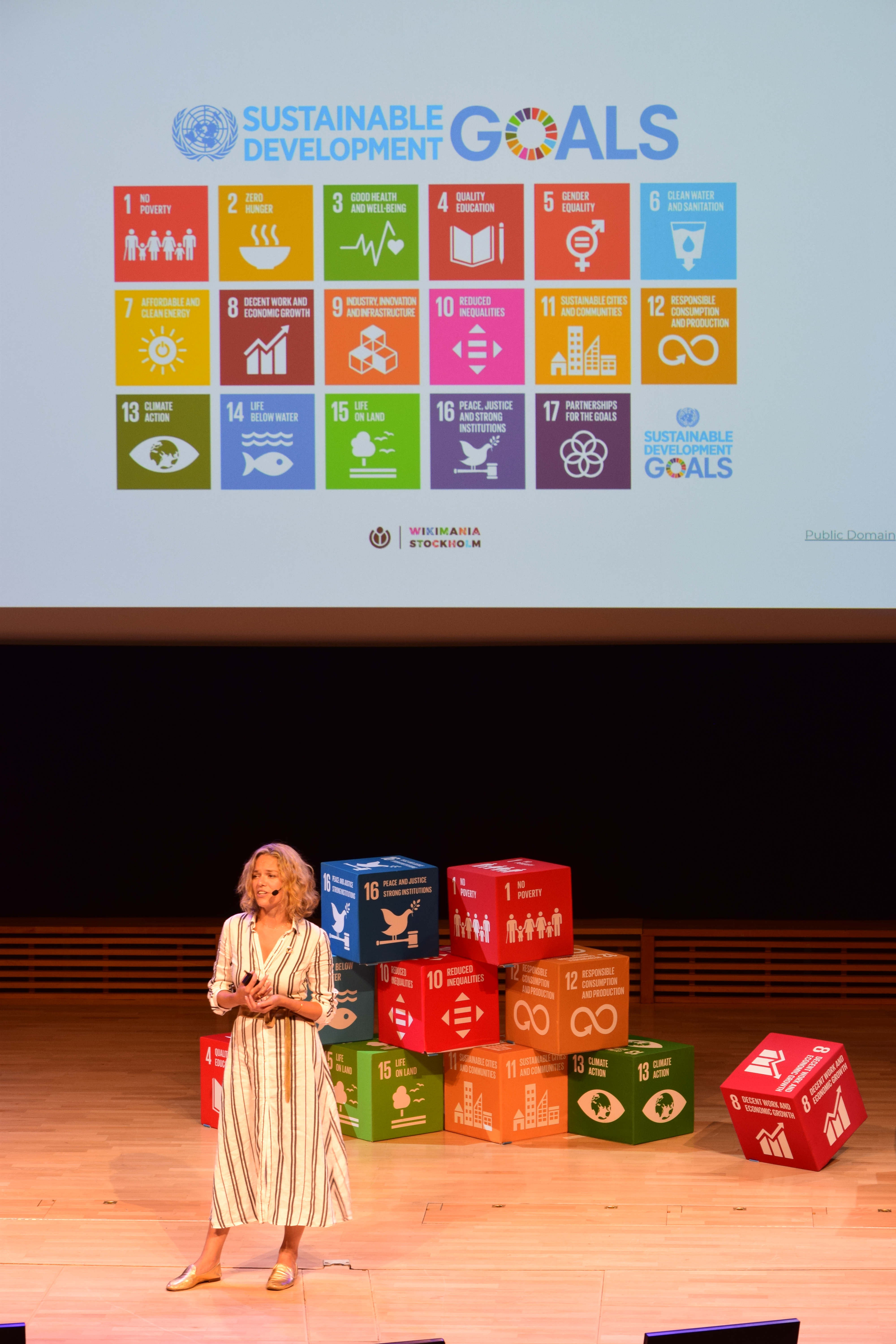 Katherine Maher, Executive Director of the Wikimedia Foundation, at the Free Knowledge and the Global Goals Spotlight Session of the WIkimania. Her session was titled "The role of free knowledge in advancing the SDGs". Stockholm 2019